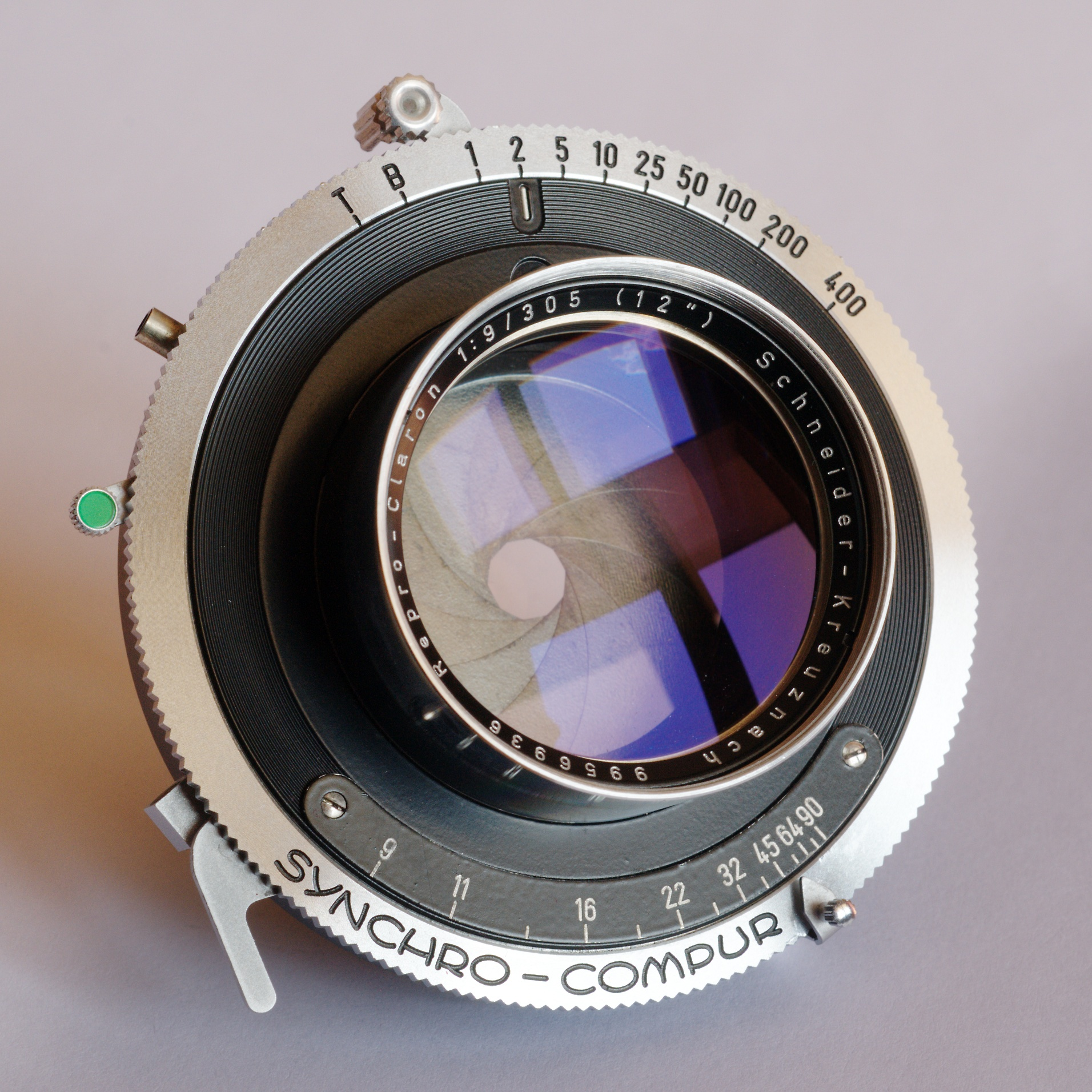 Schneider-Kreuznach Repro-Claron 305 mm f/9 large format lens, mounted on a Synchro-Compur shutter.